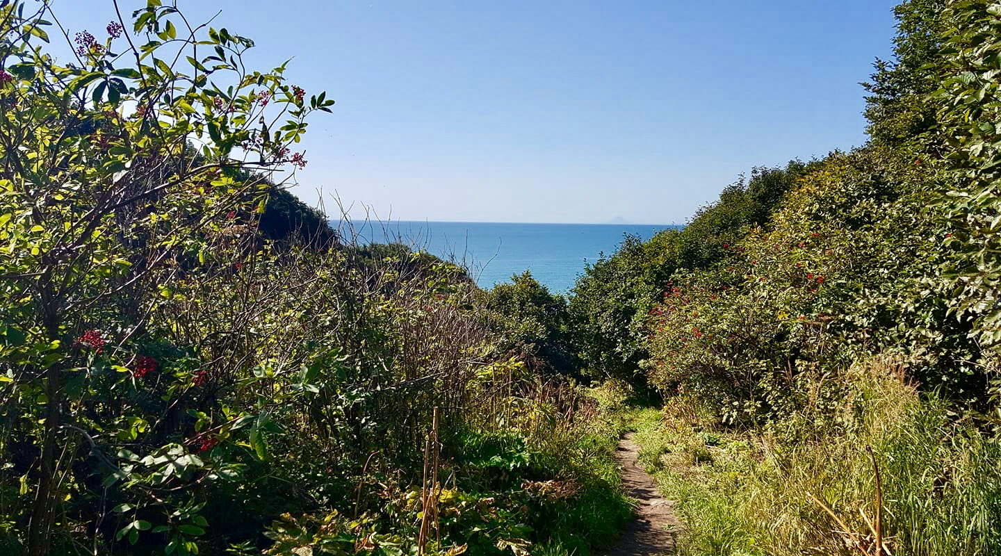 Diamond Creek Trail, Diamond Creek State Recreation Area, Alaska. Augustine Island is faintly visible in the background.